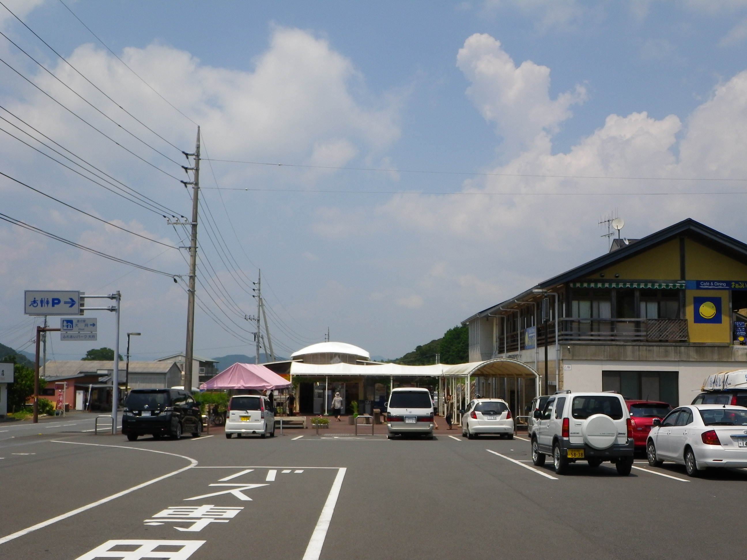 Roadside Station Otsuki